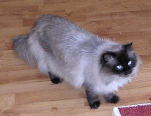 Himalayan cat named Percy he is harmless and mostly useless Percy is 3 years old harmless and mostly useless in this picture.